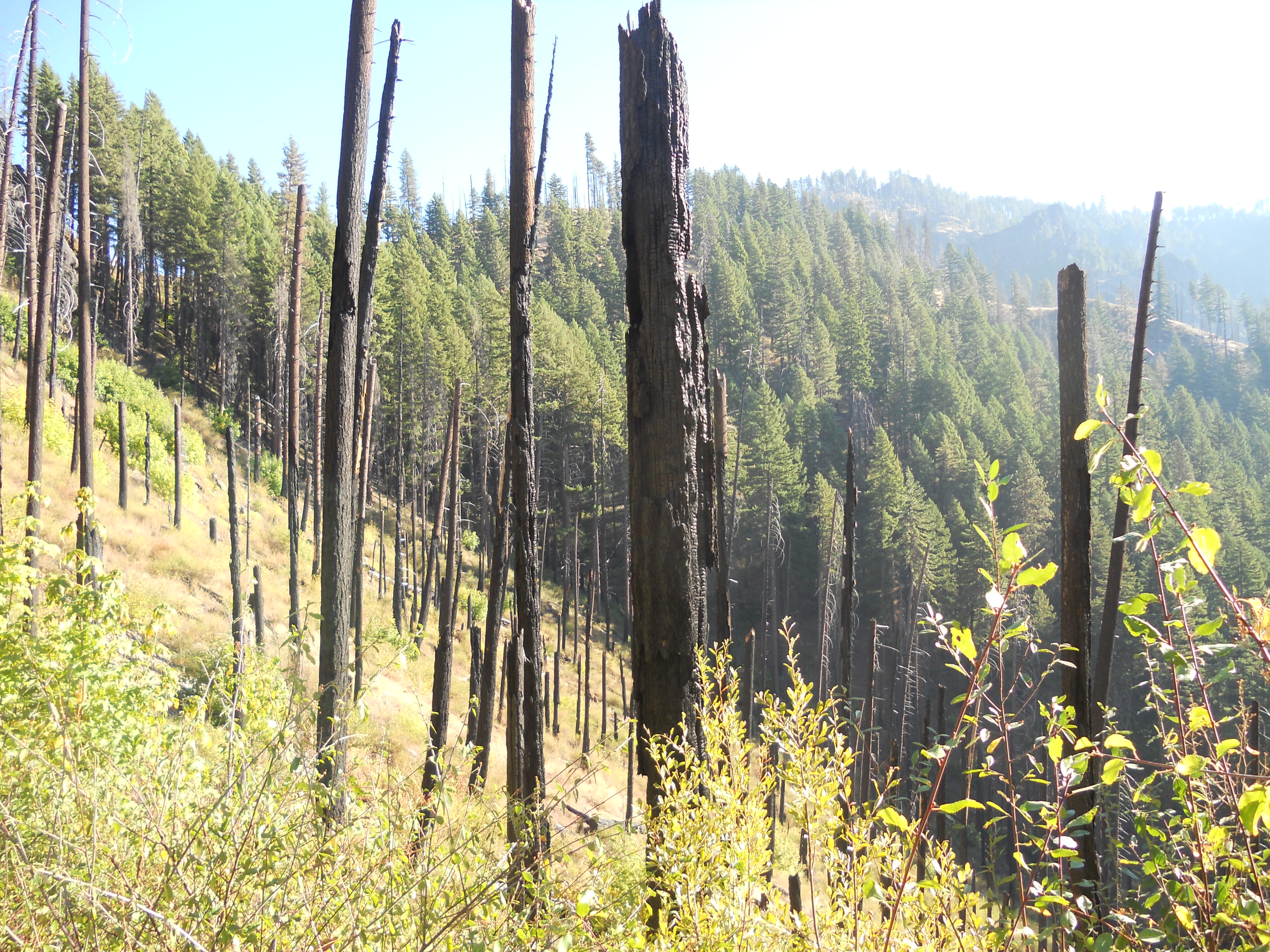 Burnt trees in the Boulder Creek Wilderness in the southern Oregon Cascades